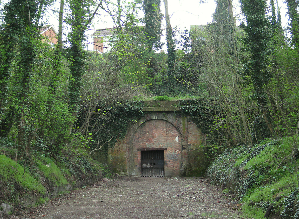 The, now sealed, west portal of Glenfield Tunnel built by the Leicester and Swannington Railway and opened on 17 July 1832. It has the distinction of being only the 2nd passenger railway tunnel in the world, being just beaten by a tunnel on the Canterbury and Whitstable Railway. Taken over successively by the Midland Railway, the London Midland and Scottish Railway, and British Railways, this part of the line was closed in April 1966 and the tunnel was subsequently sold to Leicester City Council.